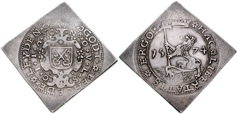 Low Countries, Leiden. AR Achtentwintig stuiver Klippe (19.34 g, 12h). Siege issue. Dated 1574. GODT + * + BEHOEDE + * • LEYDEN + in outer margin; + N + O + V + L + S G + I + P + A + C + (Nummus Obsessae Vrbis Lugduni Sub Gubernatione Illustrissimi Principis Auraici Cusus), civic coat-of-arms within ornate frame; all within linear and double pearl border HÆC * LIBERTATIS * ERGO *, lion rampant left on meadow, holding Liberty Cap set on spear in both forelegs; 15 74 across field; all within crowned linear and double pearl border. NPM Le 05.3; cf. Gelder 54c; Delmonte, Argent 169b; Mailliet 24. VF, toned, light scratch on reverse, edge filed. Ex J.D. Lasser Collection. "Owing to ill-health of the Duke of Alba, Philip II, keen on prosecuting the war to recover his possessions in the Netherlands, appointed Luis de Zúñiga y Requesens to continue subduing the Dutch. One of the cities that had sided against the Spanish, Leiden was besieged by Resquens from November 1573 to July 1574. To break the siege, the Dutch cut of the dikes, and thus enabled ships to carry provisions to the inhabitants of the flooded town. As a reward for the city’s heroic defense, Willem van Oranje the following year granted them a university charter, from which the University of Leiden was established"